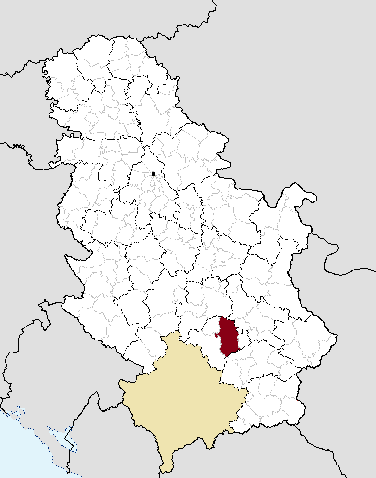 Municipal location in Serbia